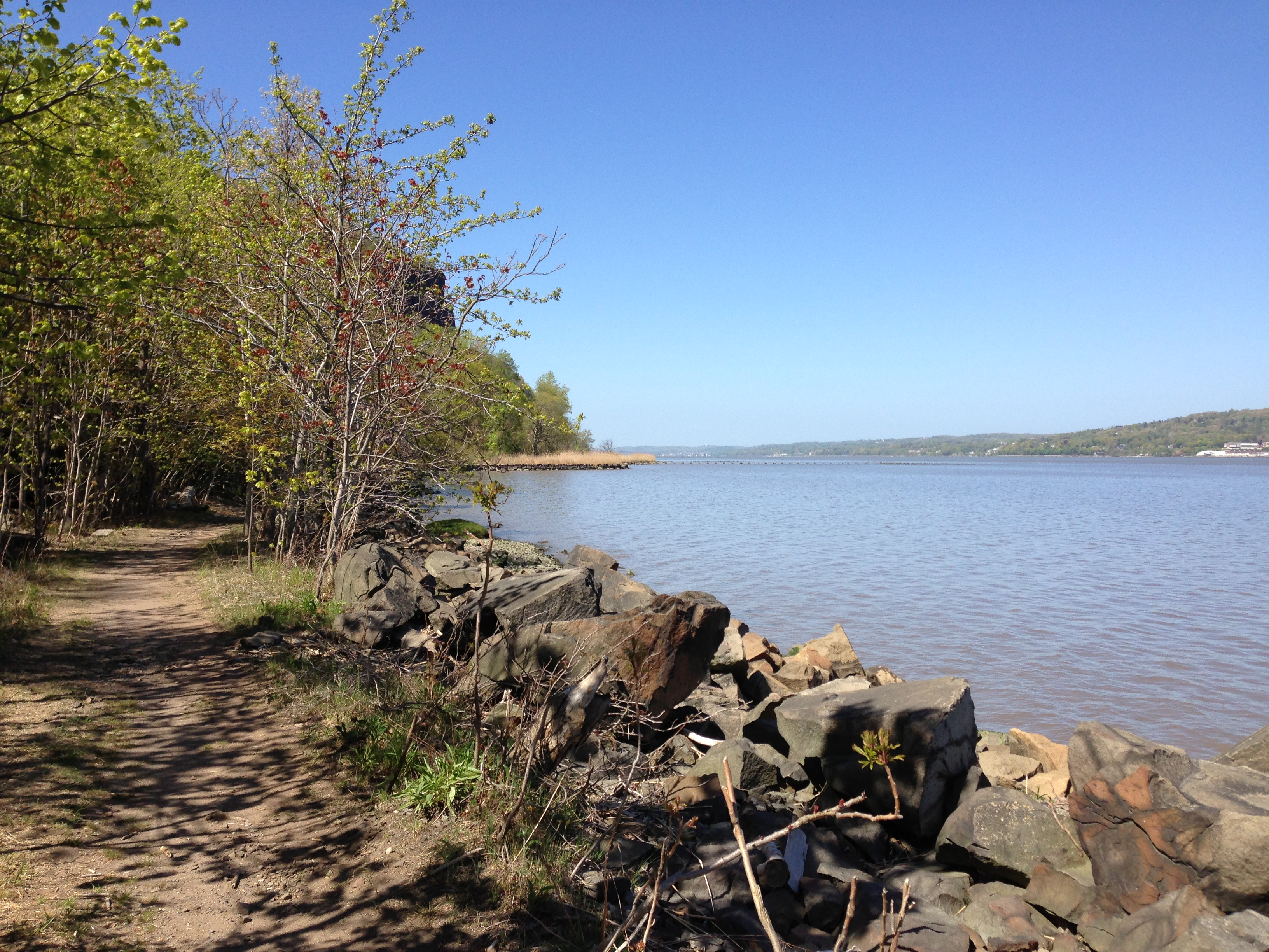 View north along the Shore Trail near the Forest View Trail in Palisades Interstate Park on May 5th 2013